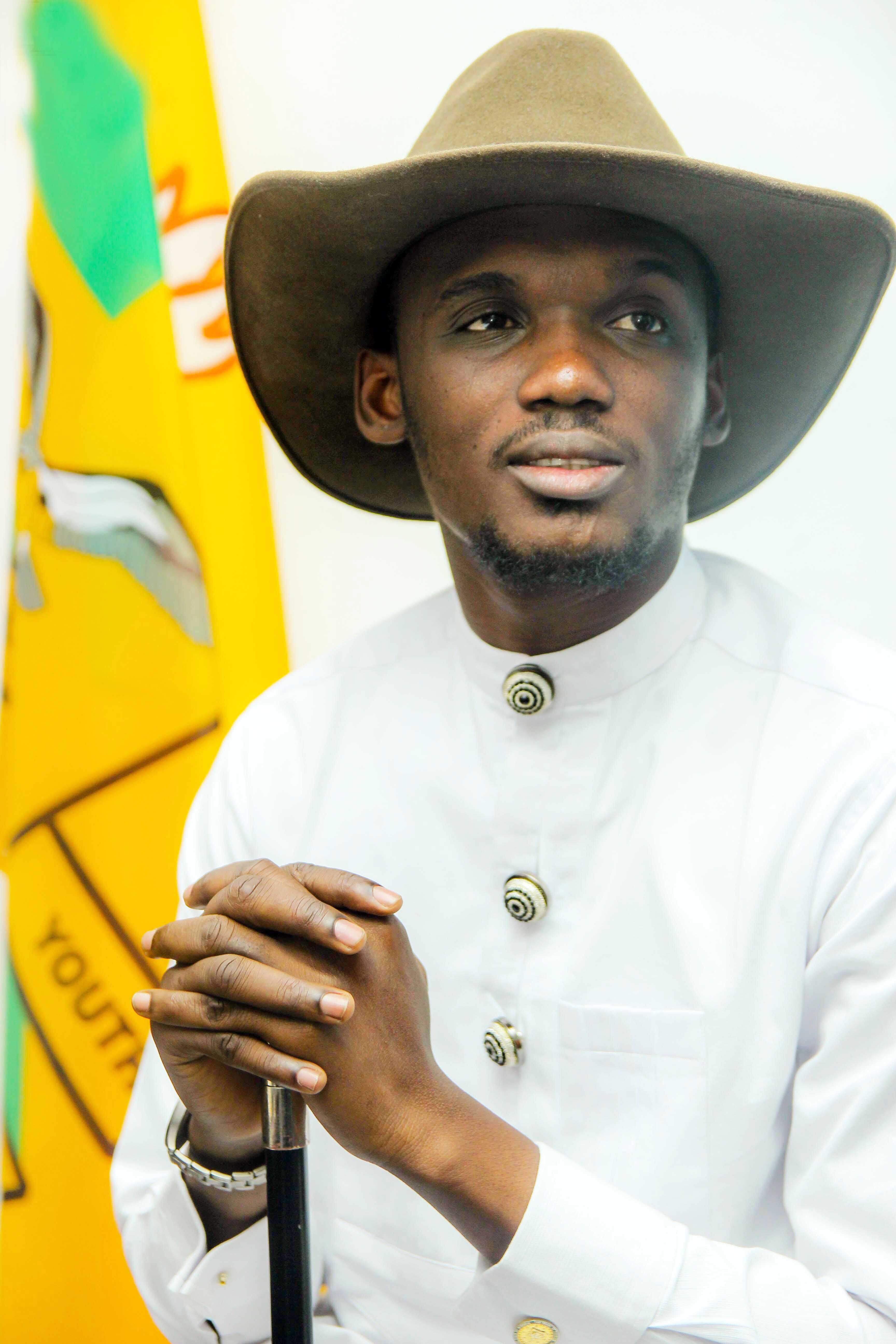 Bello Shagari portrait picture